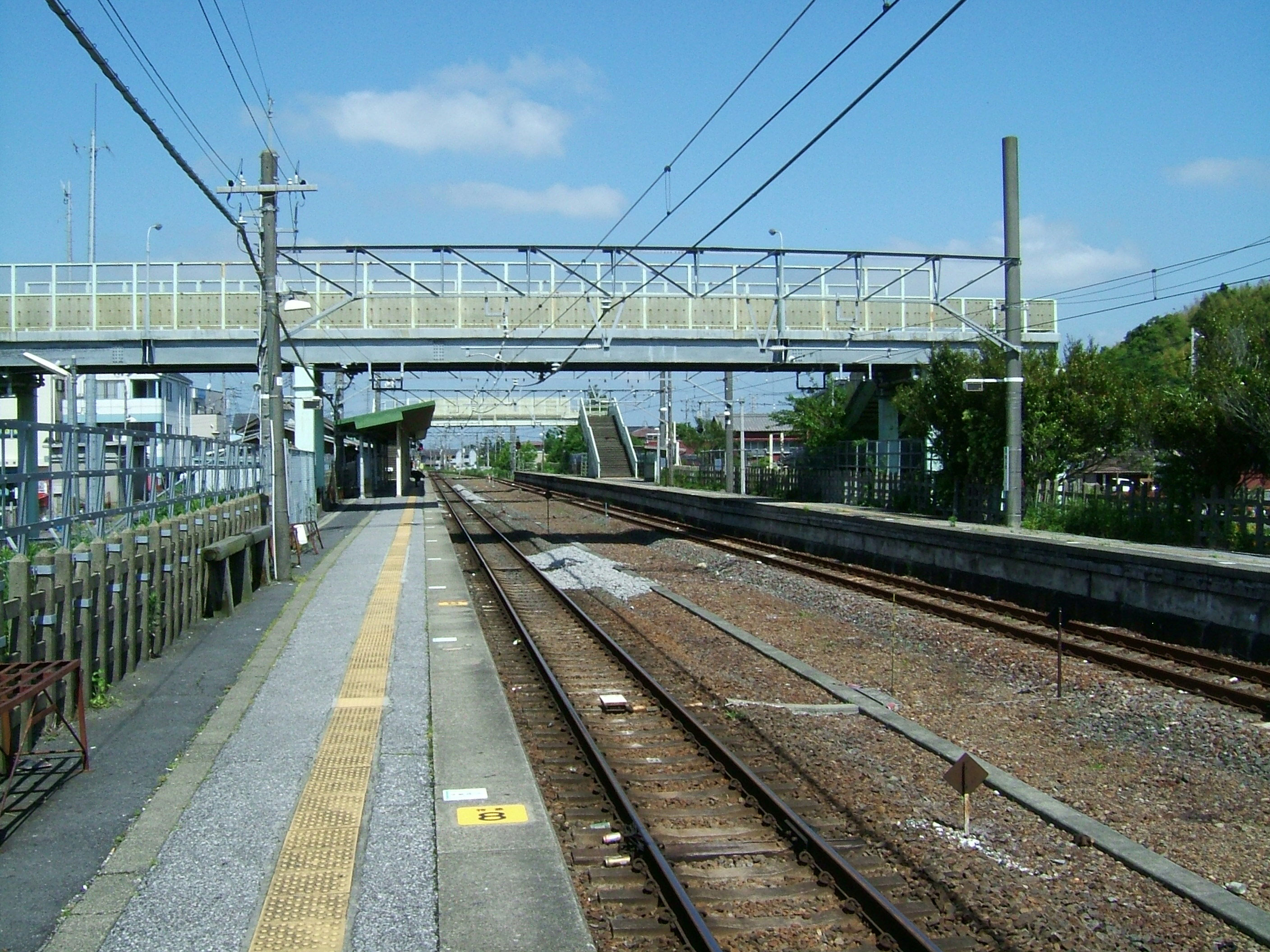 Ajiki Station platform (East Japan Railway Narita Line)